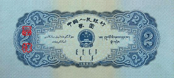 Back of second series 2 yuan renminbi